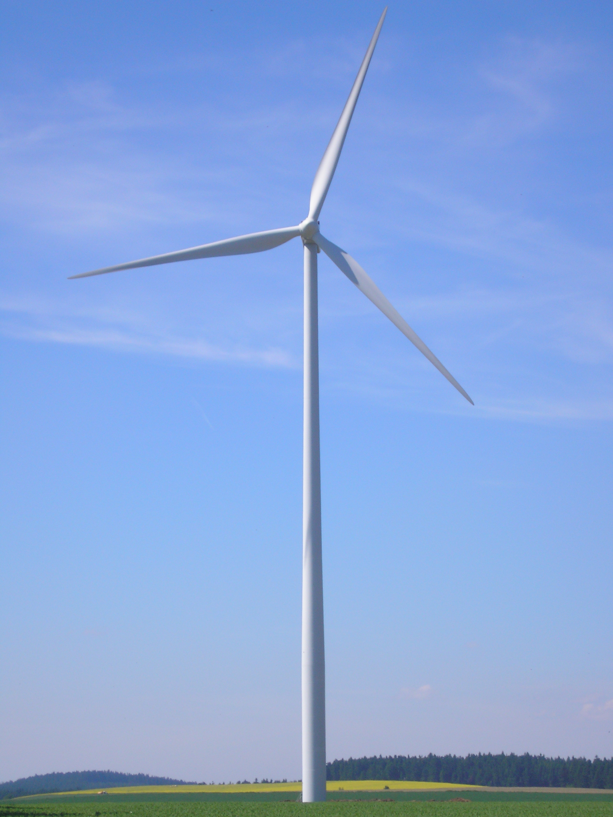 Wind farm near Pavlov in the Czech republic